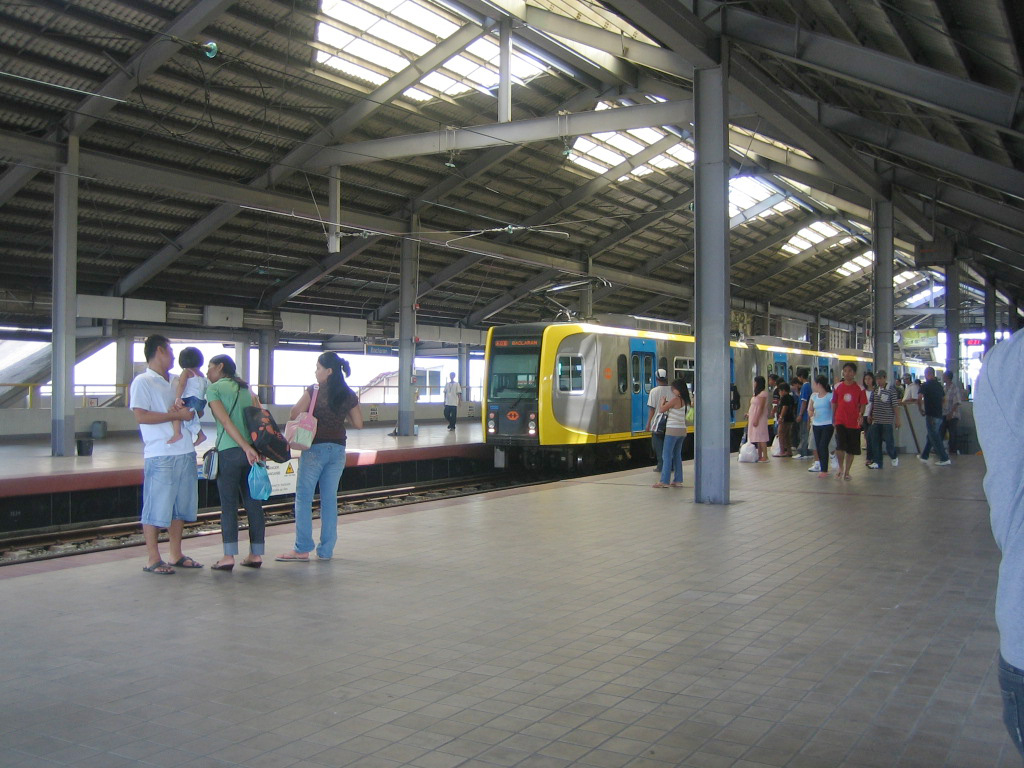 A train from Monumento station inside the Baclaran station of Manila Light Rail Transit (LRT) Line-1. Tagalog: Isang tren mula sa istasyon ng Monumento sa loob ng istasyon ng Baclaran ng unang linya ng Sistema ng Magaan na Riles Panlulan ng Maynila (LRT).